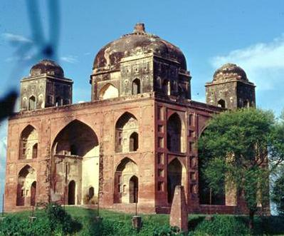 Mausoleum of sixteenth century Muslim saint Ahmad Sirhindi popularly known as Mujadid Alif Sani in Sirhind, Punjab